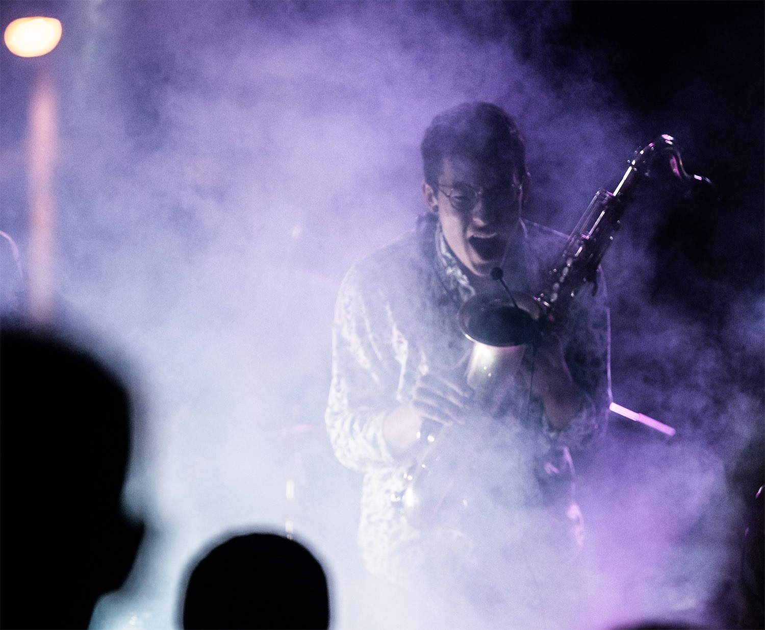 Mikser Festival, Beograd (2019)